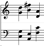 Examples of perfect fifth intervals